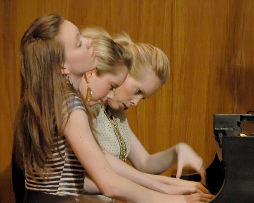 Brown sisters Melody, Deondra and Desirae performing on a Steinway grand piano at CBC Radio Studio Sparks in Ottawa Canada as part of the Ottawa International Chamber Music Festival. Photo by Mike (Binary Rhyme) Heffernan, a member of the RA Photo Club. Copyright 2006 by Mike Heffernan. Used with permission by